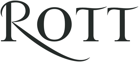 Trademark of musical instruments